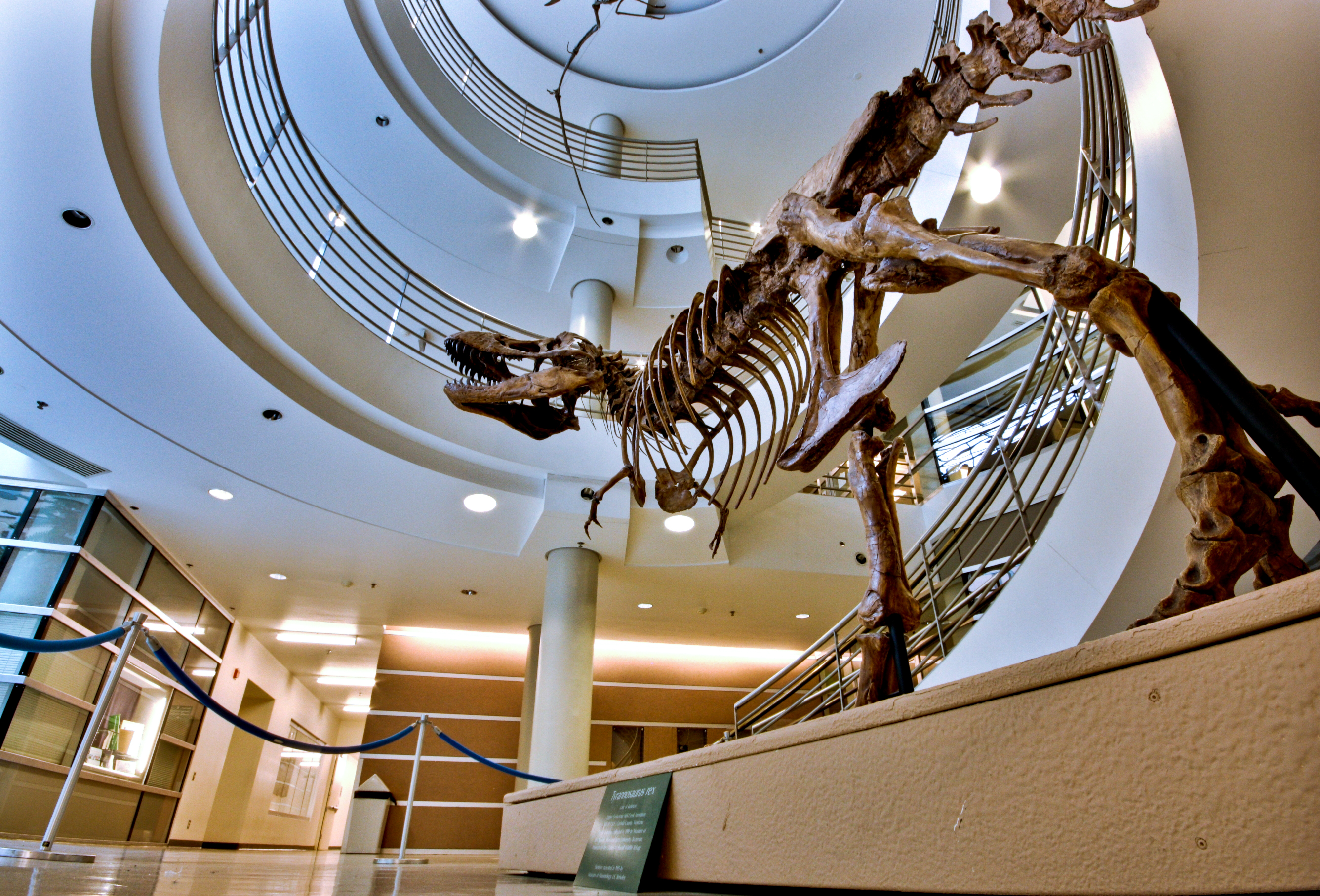 Cast of the Wankel Rex (a Tyrannosaurus rex specimen) at the University of California Museum of Paleontology in Berkeley, California. The original Wankel specimen is in Washington, D.C. at the National Museum of Natural History.